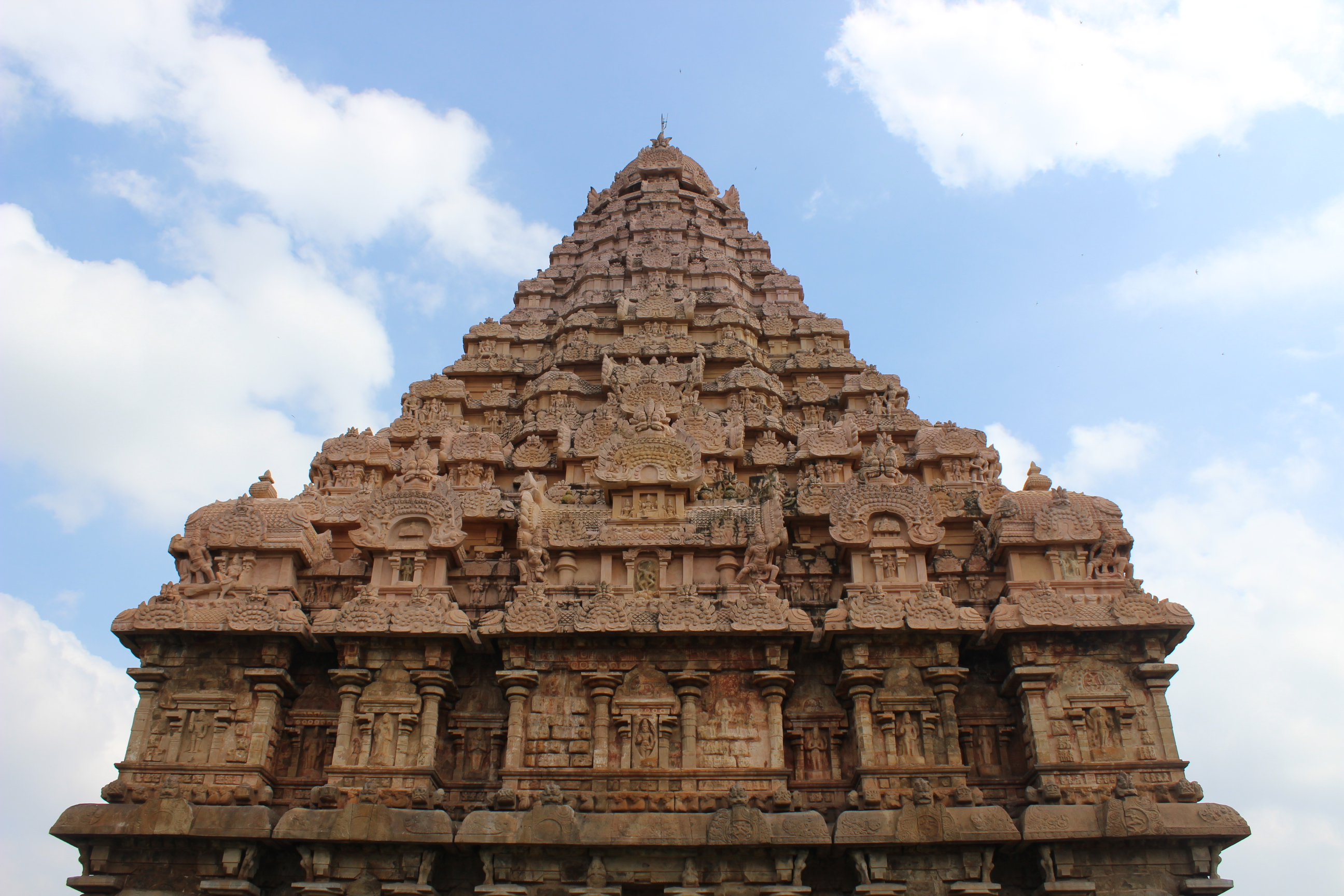 Gangaikonda Cholapuram Temple Gopuram